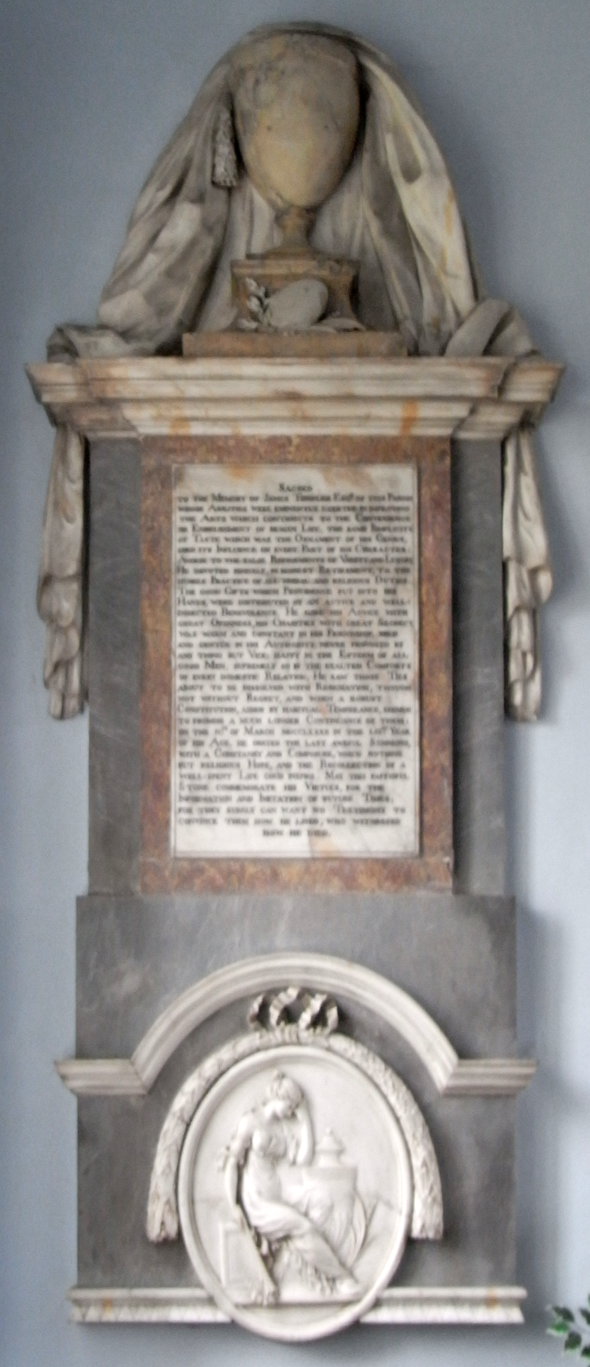 Mural monument to James I Templer (1722–1782) of Stover House, Teigngrace, Devon, in Teigngrace Church. Inscribed: "To the memory of James Templer Esq of this parish whose abilities were eminently exerted in improving the arts which contribute to the convenience or embelishment of human life. The same simplicity of taste which was the ornament of his genius, shed its influence on every part of his character. Averse to false refinements of vanity and luxury, he devoted himself in modest retirement to the humble practice of all moral and religious duties. The good gifts which Providence put into his hands were distributed by an active and well directed benevolence. He gave his advice with great openness, his charities with great secrecy, was warm and constant in his friendship, mild and gentle in his authority, never provoked by anything but vice: Happy in the esteem of all good men, supremely so in the exalted comforts of every domestic relation. He saw those ties about to be dissolved with resignation, though not without regret, and when a robust constitution aided by habitual temperance seemed to promise a much longer continuance of them, on the IVth of March MDCCLXXXII in the LIX th year of his age, he obeyed the last awful summons, with a constaney of composure which nothing but religious hope, and the recollection of a well spent life could inspire. May this faithful stone commemorate his virtues for the information and imitation of future times, for they surely can want no testimony to convince them how he lived, who witnessed how he died".